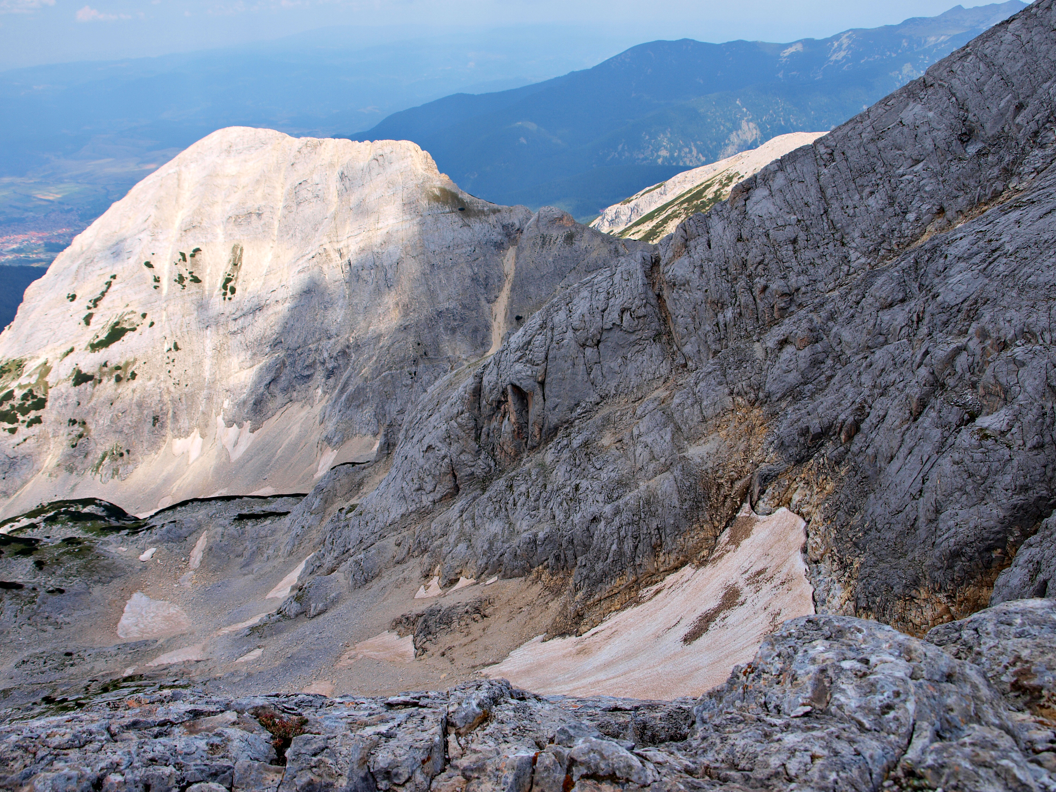 The Banski Suhodol Glacieret in the Pirin Mountains of Bulgaria as seen from the Koncheto ridge.